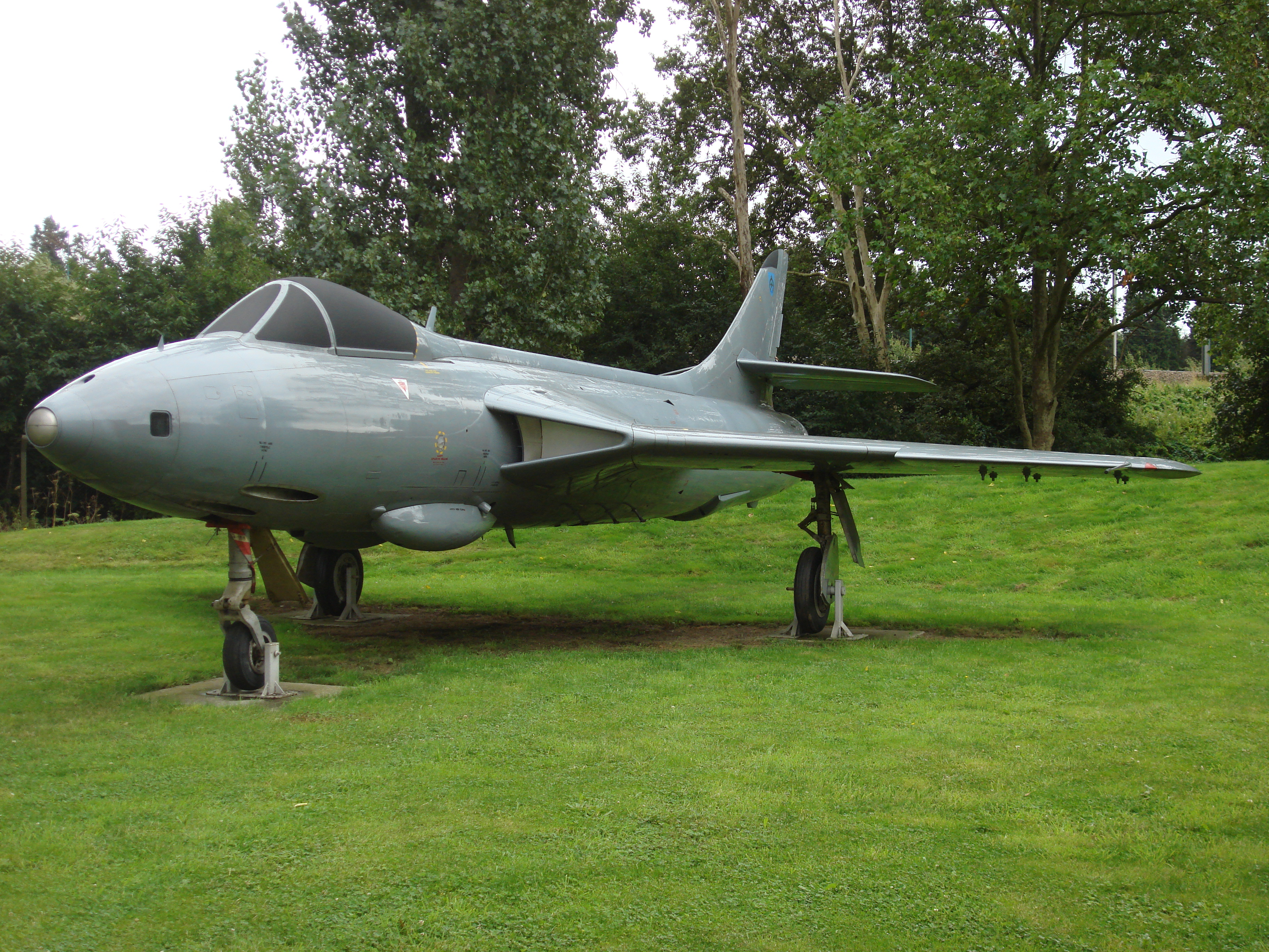 Hawker Siddeley Hunter FR.10 at the RAF Museum in London. This aircraft formerly served as part of The Royal Air Force of Oman